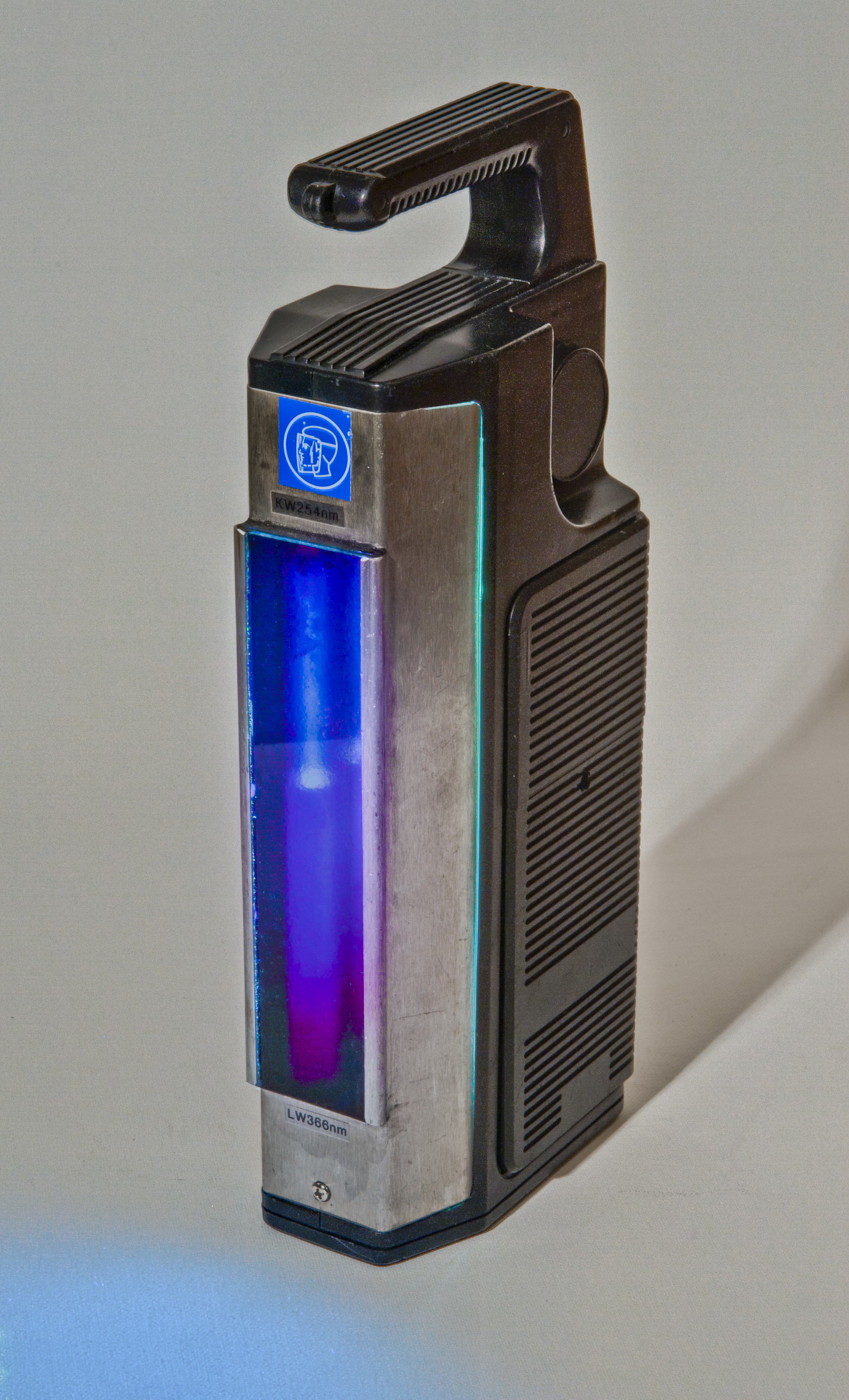 Portable UV (ultraviolett) lamp with UV-A and UV-B light